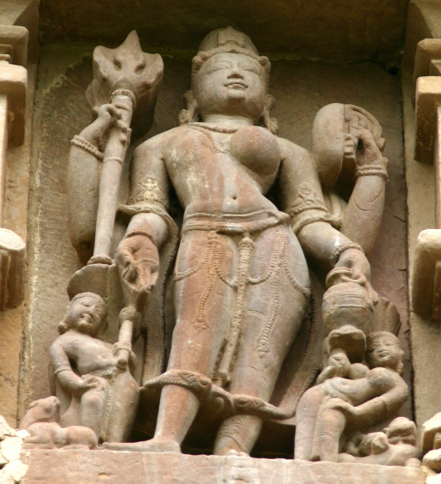 Shiva Ardhanarishwara w big clunky mirror Lakshmana Mandir? 10th century Chandella Dyn. Khajuraho, Chhatarpur Dt., MP